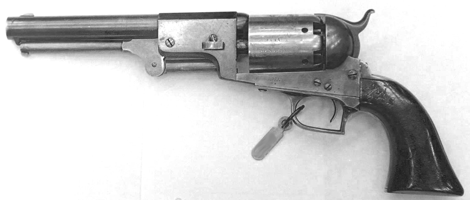 Colt Dragoon 1848 First Model, squareback Triggerguard, round Cylinder Stops